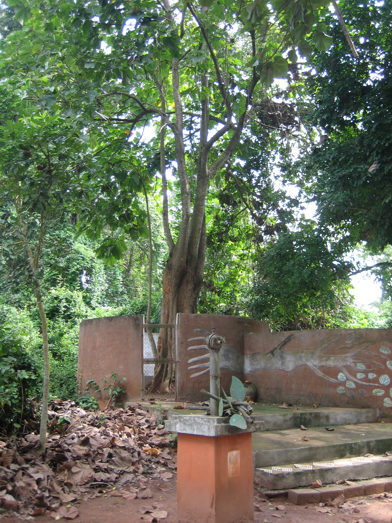 Iroko tree in Sacred forest in Ouidah, Benin